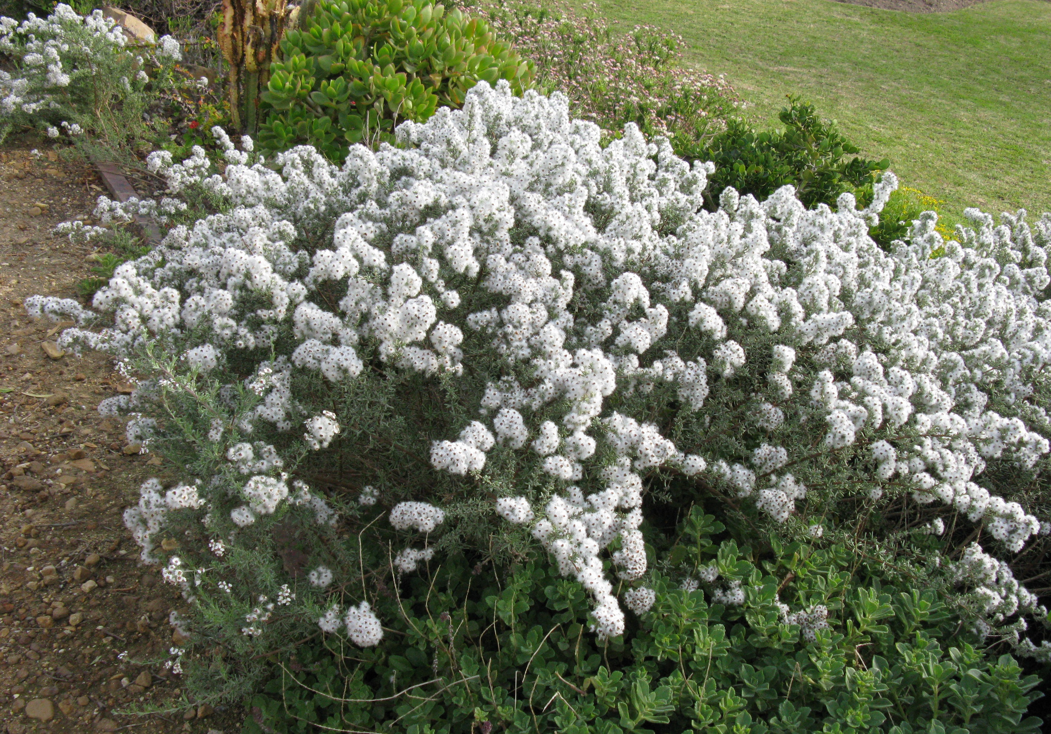 Eriocephalus africanus, showing habit in a garden in winter, with persistent snowy expended seed follicles and very few flowers.